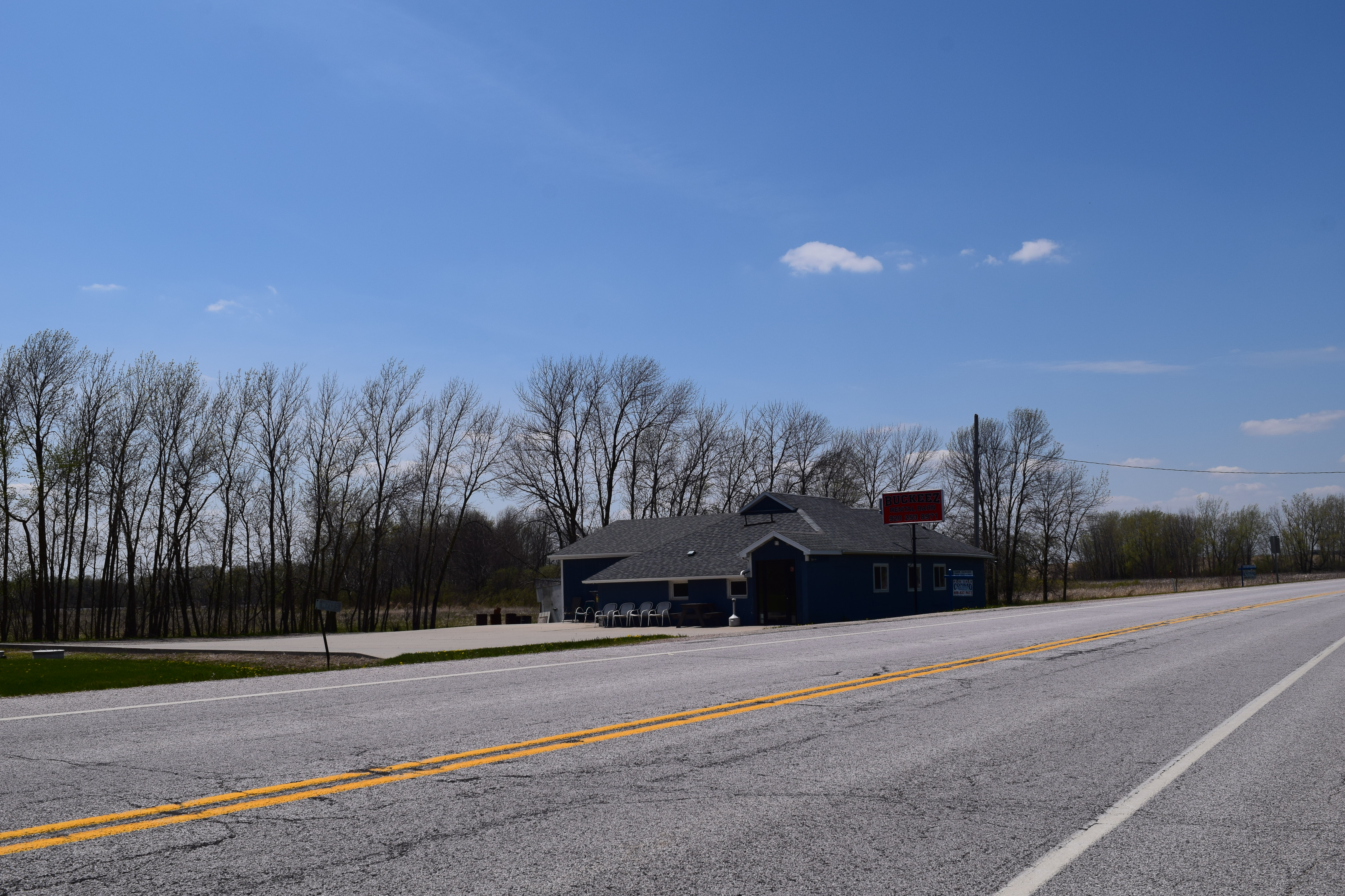 A building, formerly a business, in Hubbleton, Wisconsin.